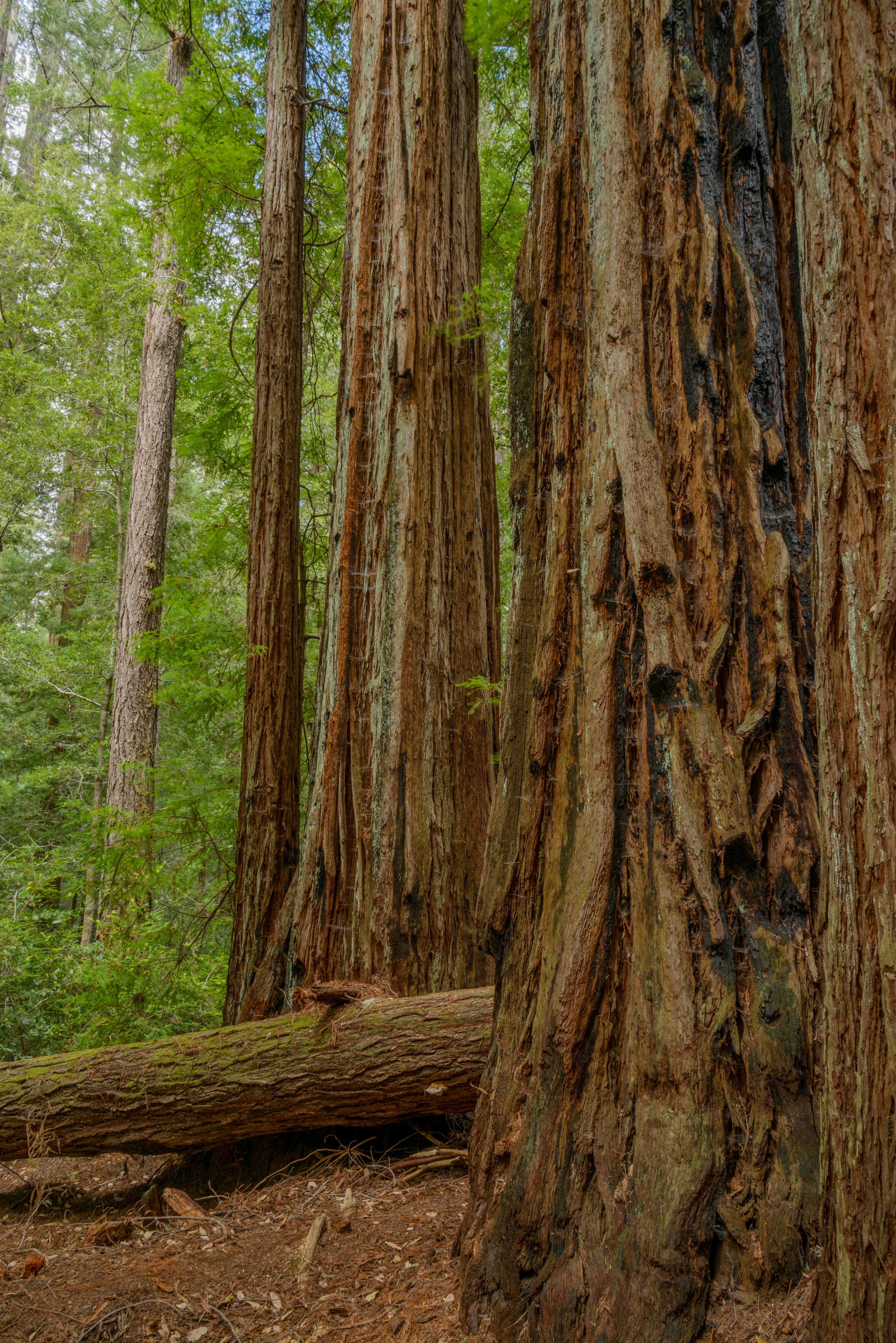 A group of Coast Redwoods Sequoia sempervirens, one fallen, in the West Waddell Creek State Wilderness, part of Big Basin Redwoods State Park near Boulder Creek, in the Santa Cruz Mountains, northern California.